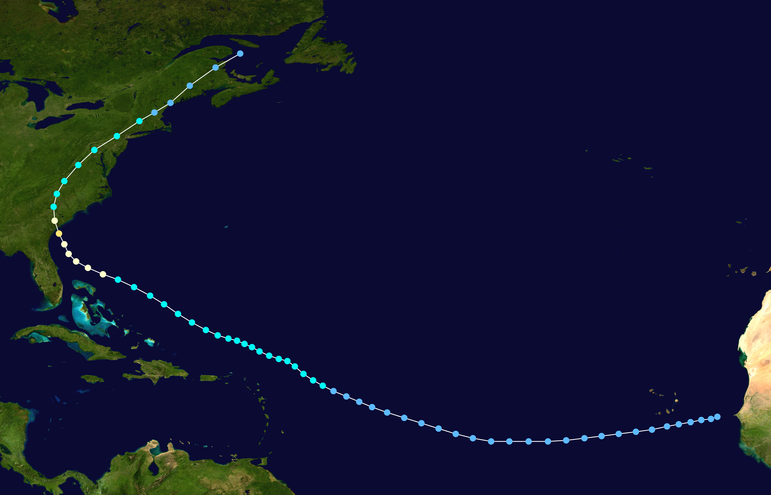 Hurricane Able (1952) track. Uses the color scheme from the Saffir-Simpson Hurricane Scale.